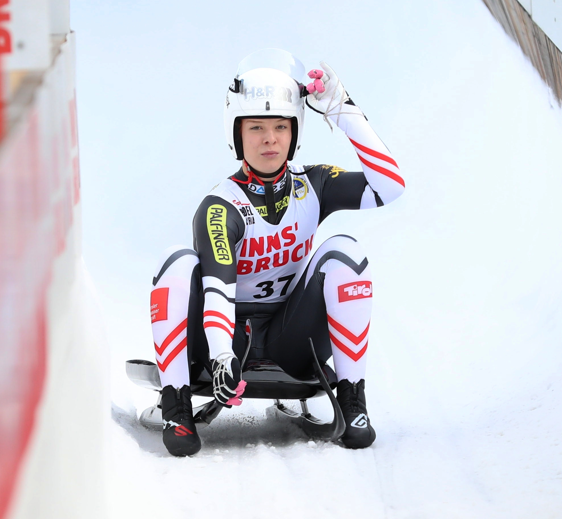 Women's Nations Cup race at the 2018/19 Luge World Cup in Innsbruck-Igls